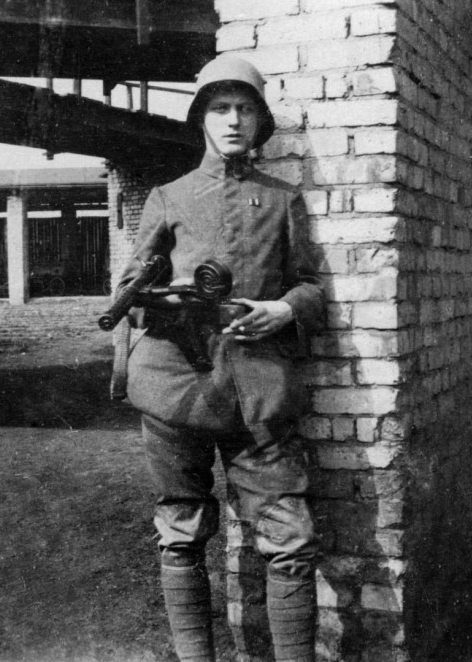 Soldier of a German stormtrooper assault group with his Bergmann MP18.1 and a Parabellum P08, Northern France, Spring 1918.